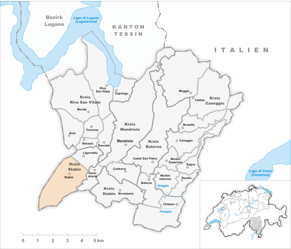 Municipality Stabio